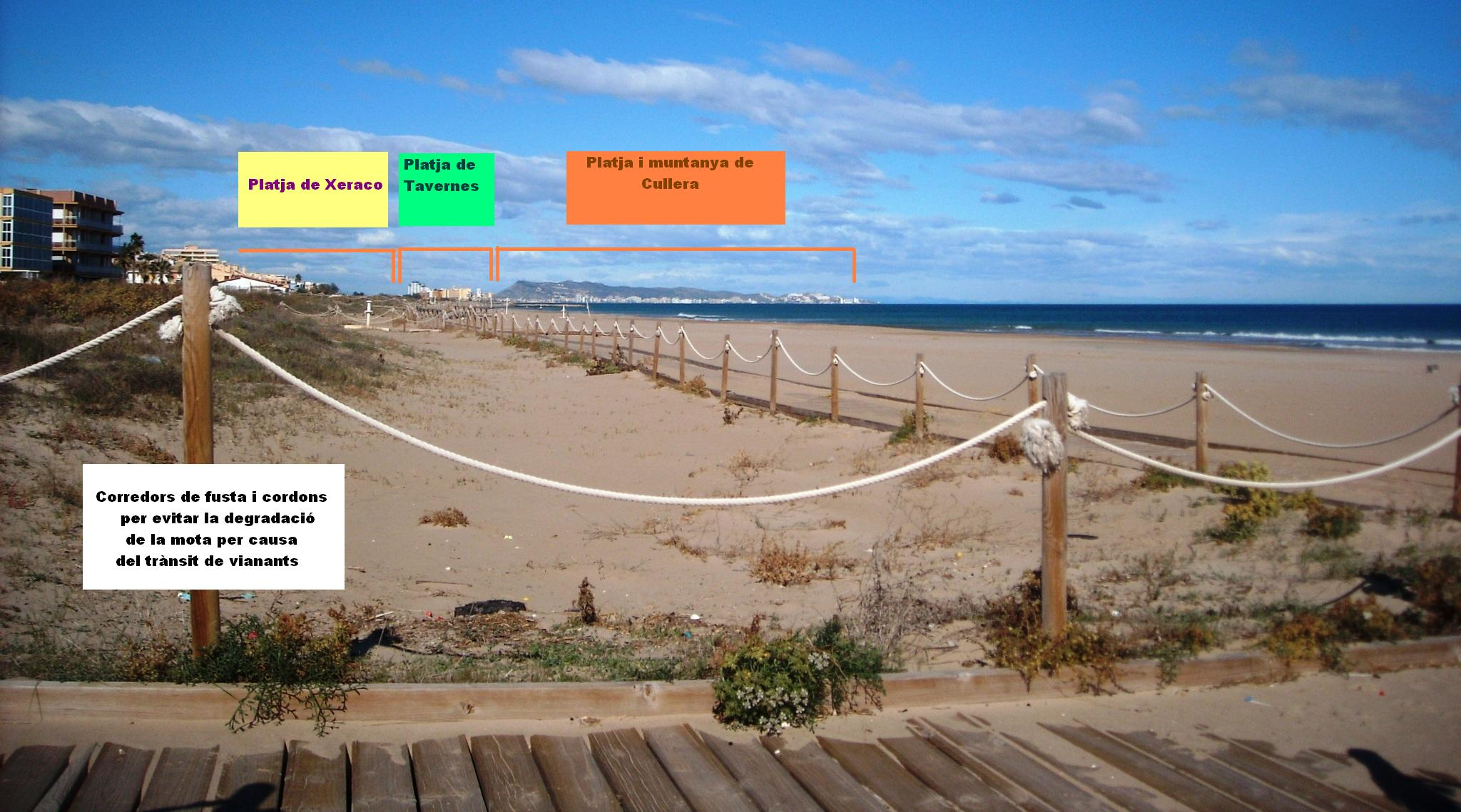 Mota of Xeraco Beach. View of Tavernes Valldigna and Cullera Beach. Protections against walkers on the sand.